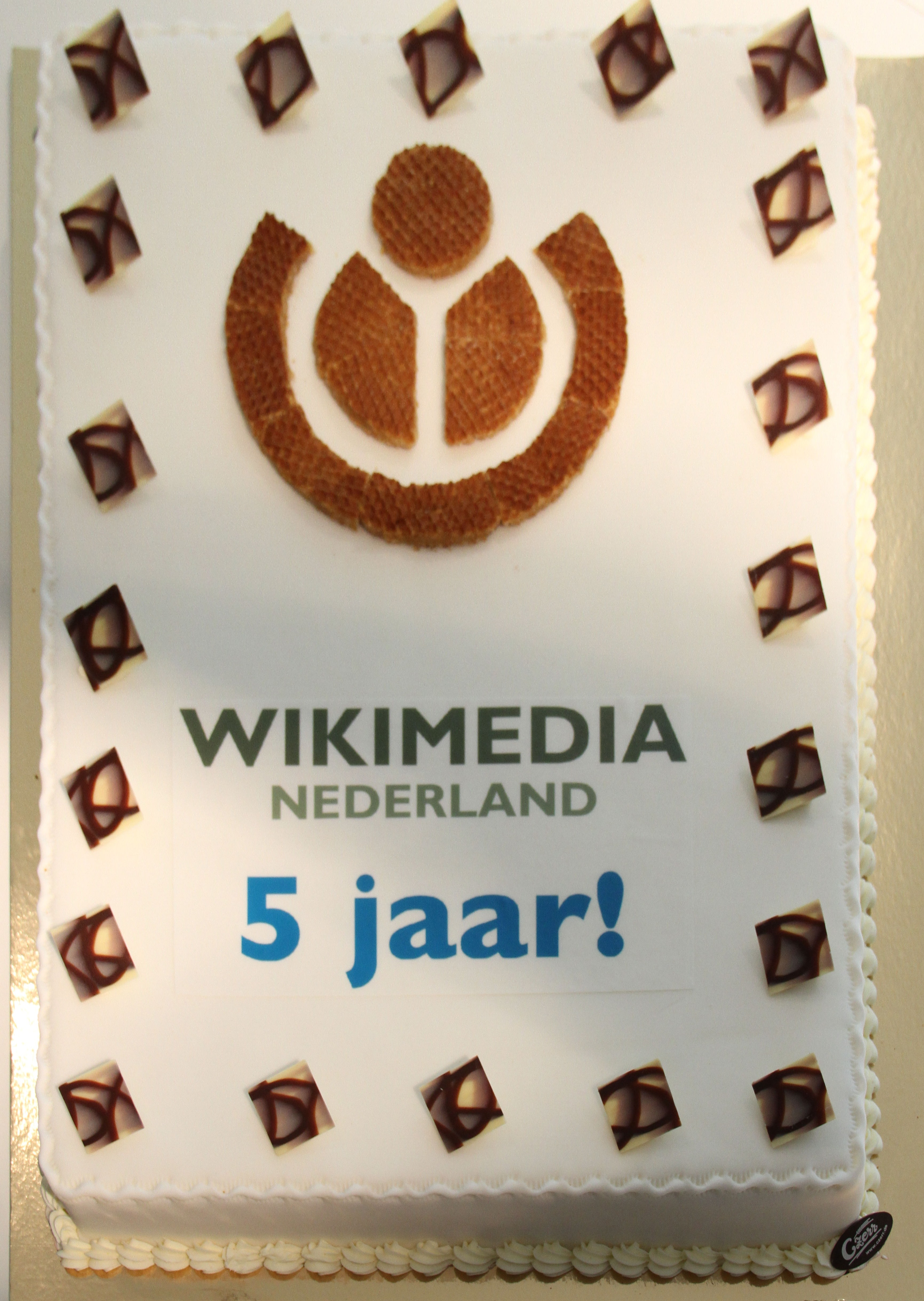 cake. Happy birthday WM-NL.